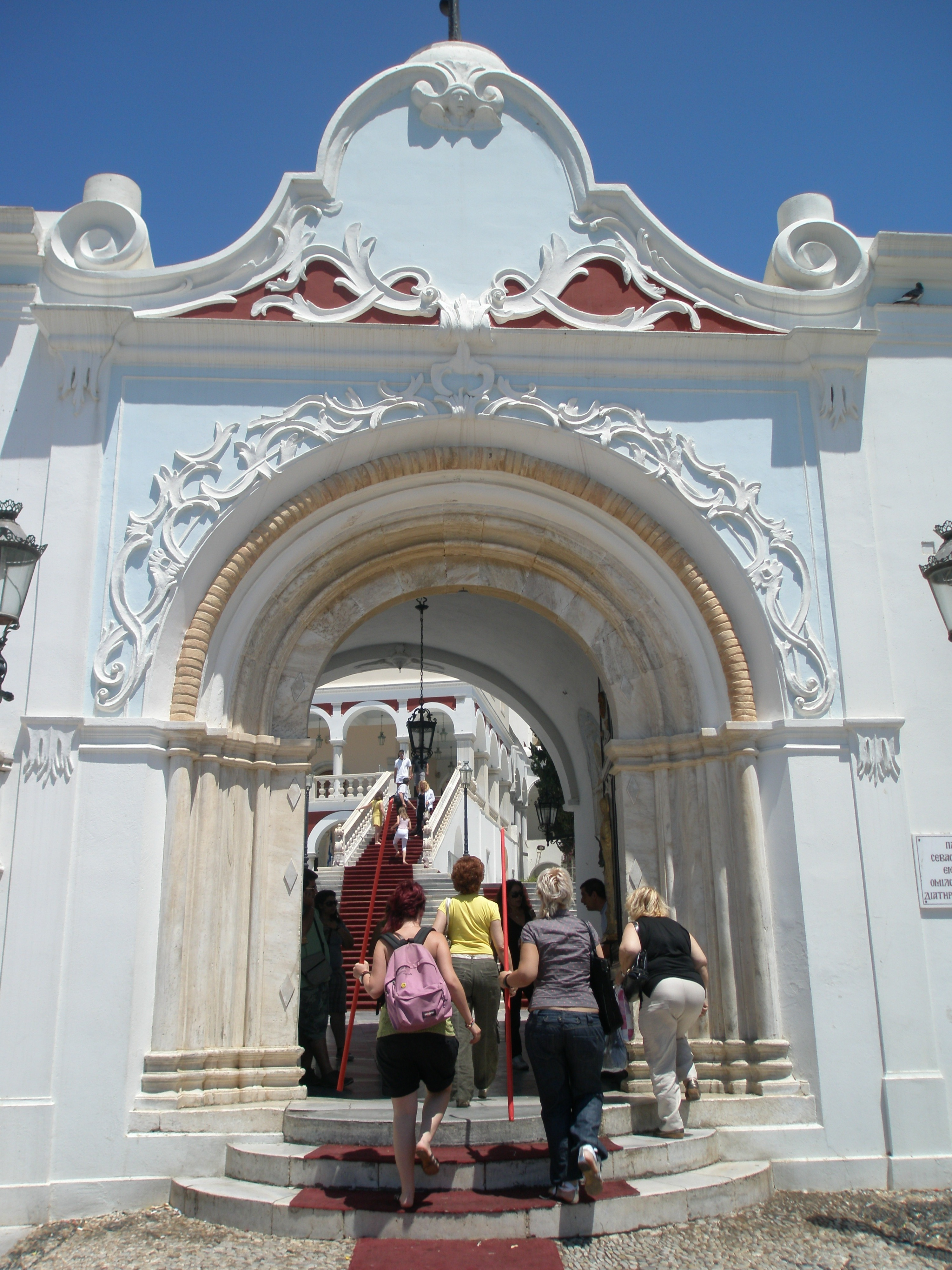 carrying candles into Panagia Tinou church